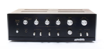 The Sansui AU-666 is a 240-watt solid state amplifier with a silicon transistor. It's frequency controls range from 30Hz to 15,000Hz, and has a -20db muting feature. 100V 50Hz/60Hz